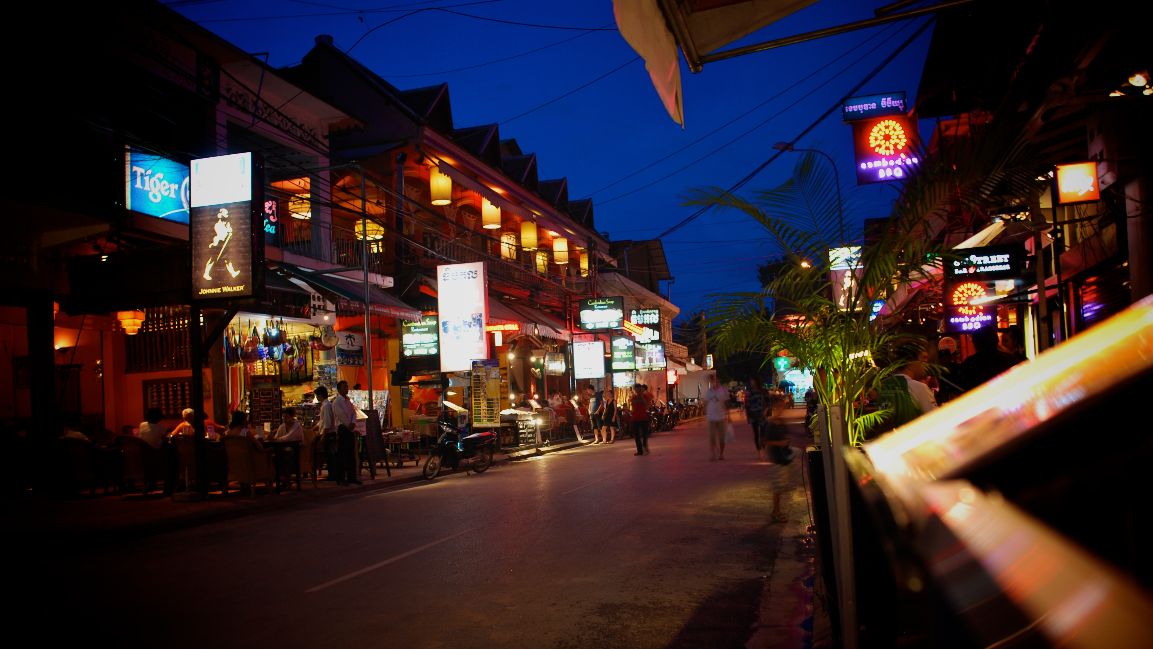 Street in Siem Reap,Cambodia. cambodia holiday cambodia holidays cambodia hotel cambodia hotels cambodia tour cambodia tours cambodia travel cambodia vocation cabodia vocations phnom penh hotel phnom penh hotels phnom penh travel phnom penh travels siem reap travels siem reap travel siem reap hotel siem reap hotels siem reap travel siem reap travels siem reap tour siem reap tours.